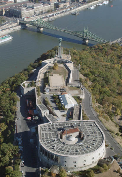 Citadella, Hungary, Budapest, aerial photography